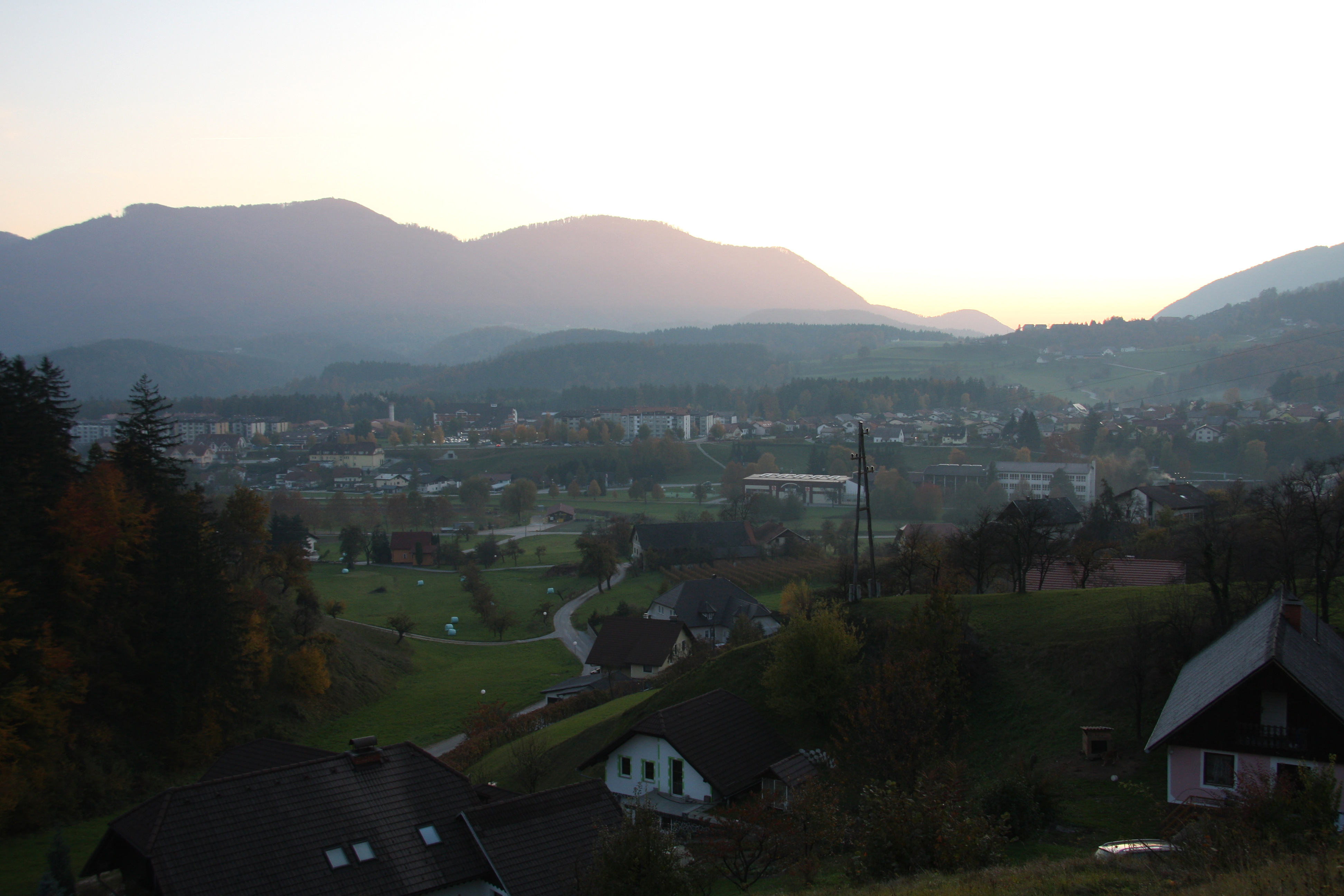 Panorama of Zreče from a nearby hill.